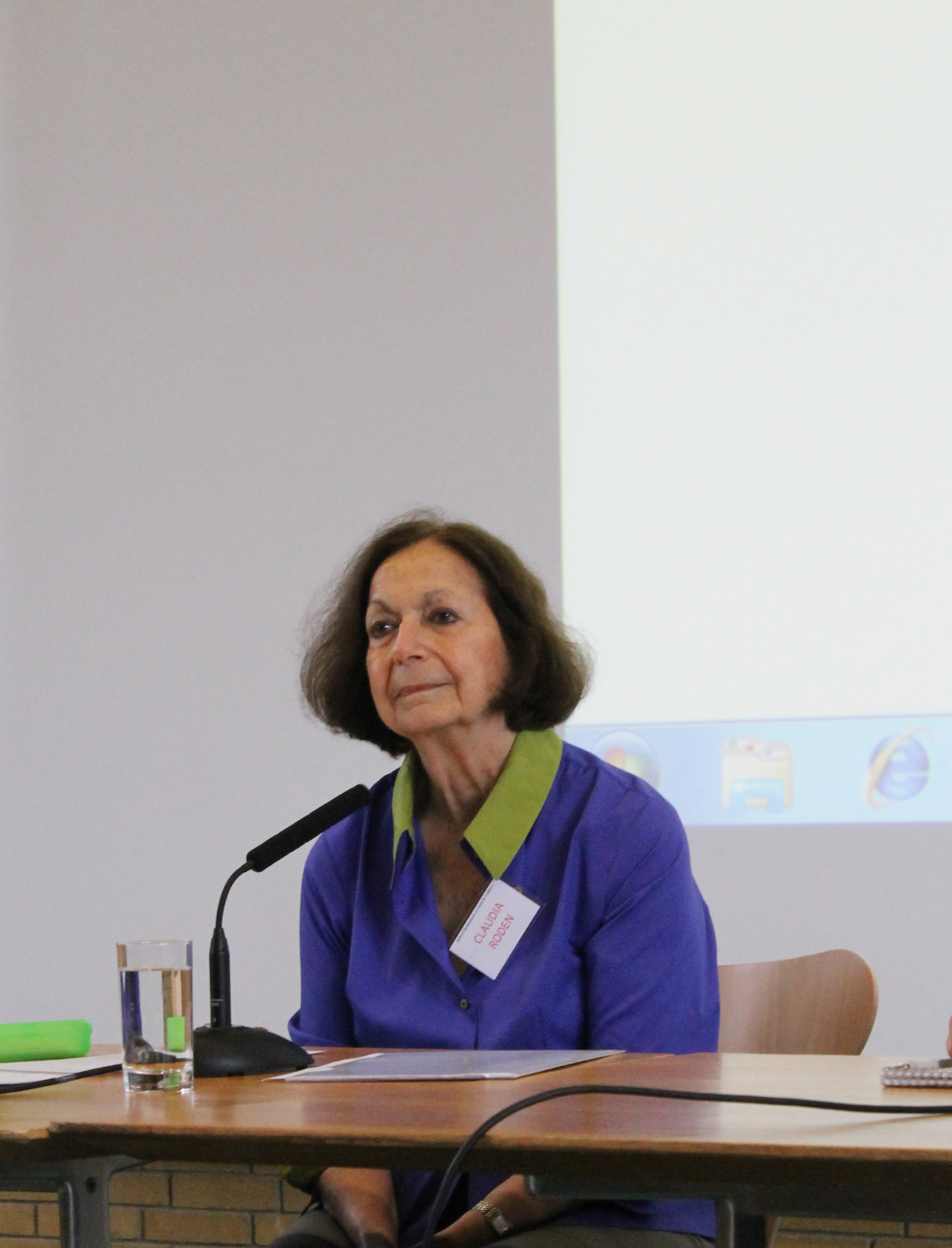 Cookbook writer Claudia Roden at the Oxford Symposium on Food and Cookery, 2012.